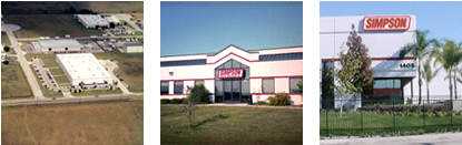 This photo shows Simpson's manufacturing facility in New Braunfels TX. Photo by TeamSimpson.